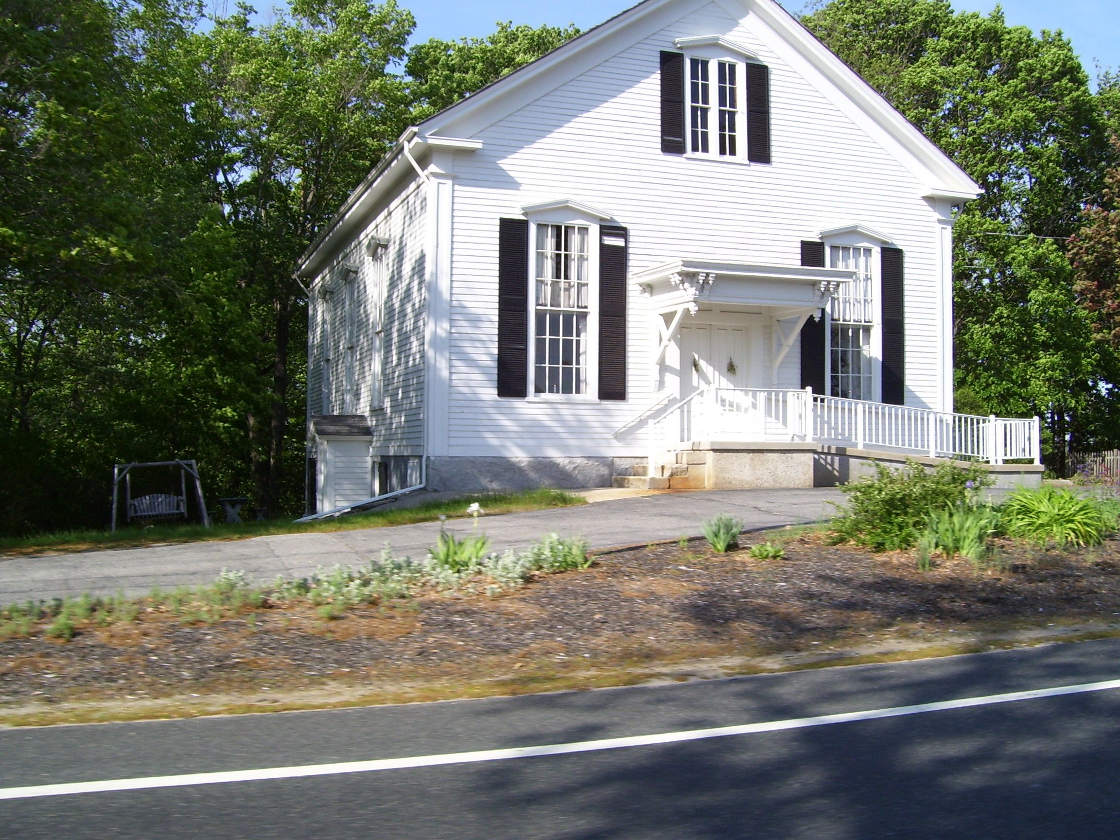 This is my 2008 photo of the Smithfield Friends Meeting House in Woonsocket, Rhode Island across the street from North Smithfield.